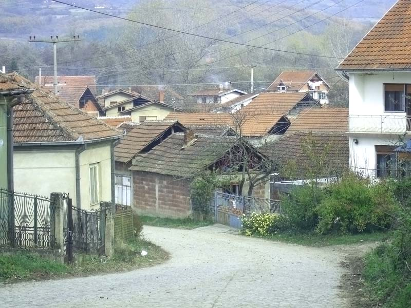 Šišava, near Vlasotince, Serbia